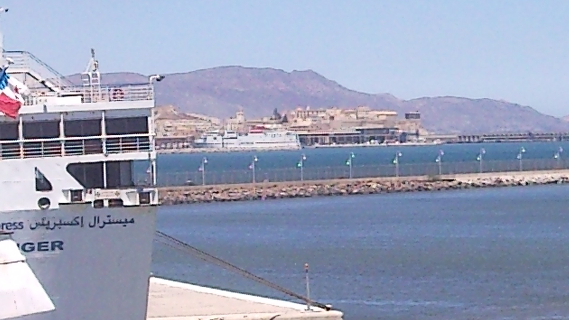 Ferry in Nador port. In the background the border between Nador and the Spanish enclave of Mellila and also ferries in Mellila port